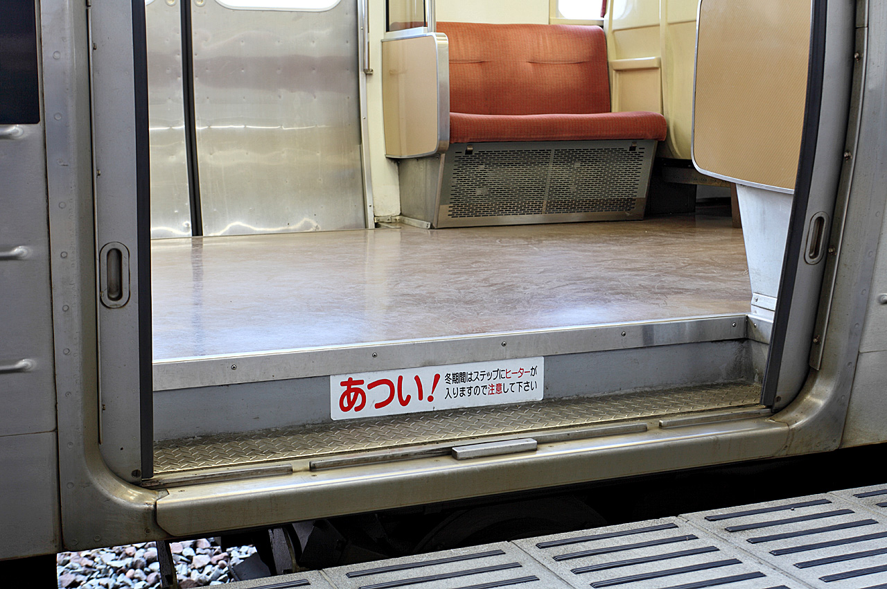 Door step of JR East 719 series EMU